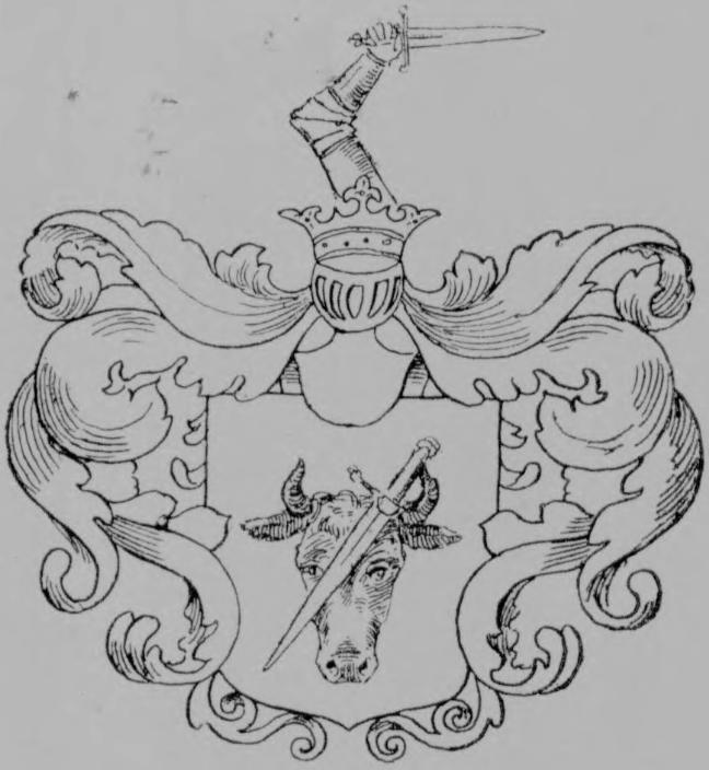 Coat of Arms Pomian from reprint of "Nomenclator" by Wojciech Wiiuk Kojałowicz, orginal work from 1658, reprint from 1905 (another version)